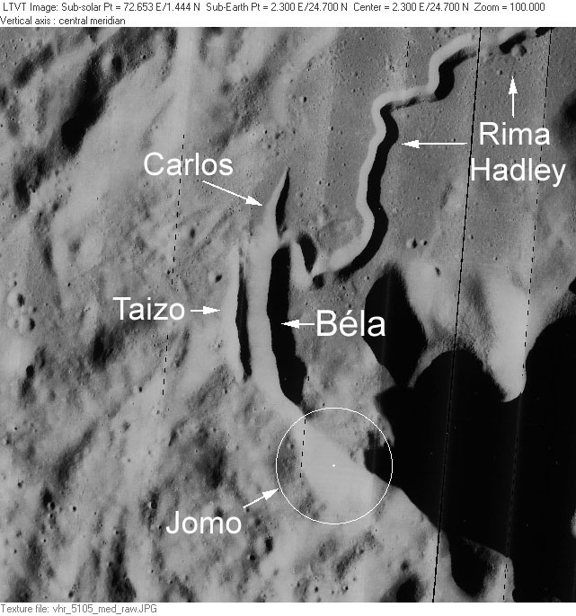 LO-V-105M Béla is the largest of several pits at the southeast end of Rima Hadley. The other IAU-named features in this view are Carlos, Taizo and Jomo.